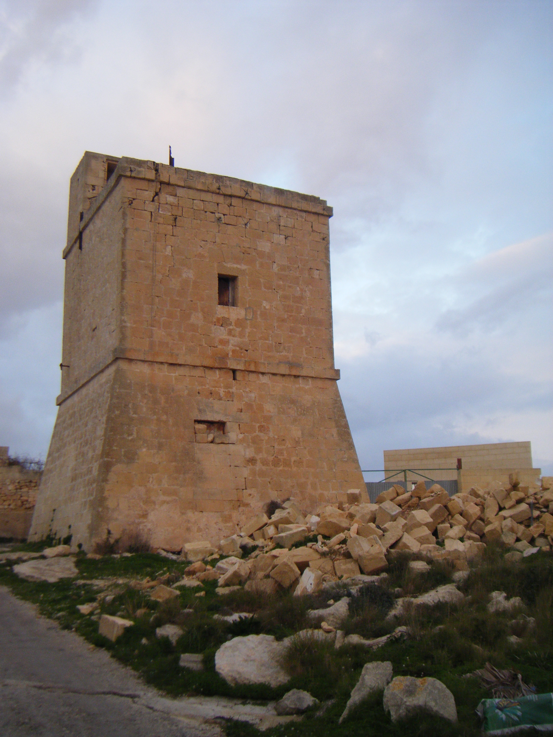 View of Wardija watch tower, Zurrieq Malta